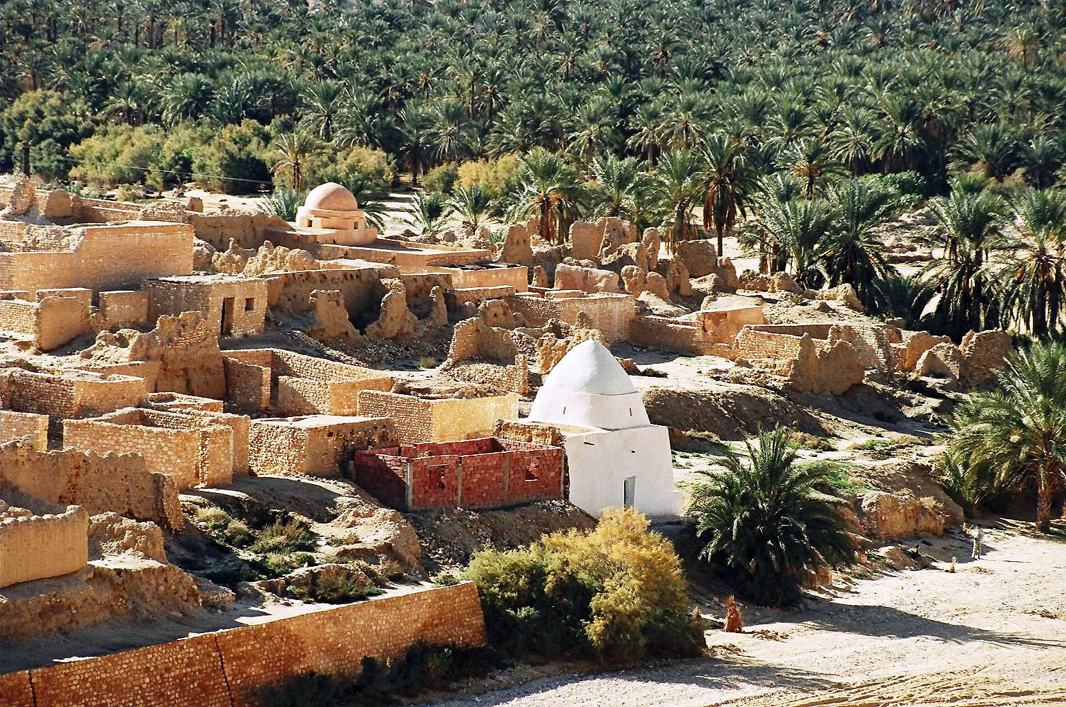 From the oasis of Tamerza in Tunisia we can see the old village which was swallowing by a river 30 years ago. The white house is a Marabout. A kind of place were a Saint man still live.